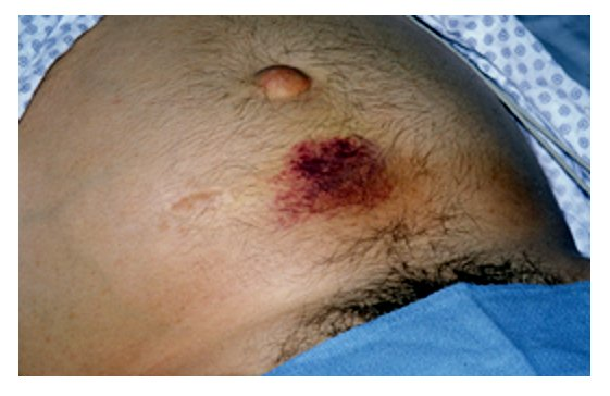 Acute pancreatitis with Cullen’s sign: This 36-year-old man presented with a four-day history of severe epigastric pain following an alcoholic binge. His serum amylase level was 821 U/L, and an abdominal CT scan showed marked inflammatory changes in his pancreas, omentum, and surrounding mesentery.